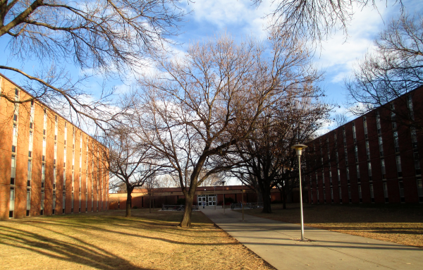 The University of South Dakota's Olson (left) and Micklesen (right) residence halls. An east facing picture facing the center walkway (The Commons) east entrance between the two halls.